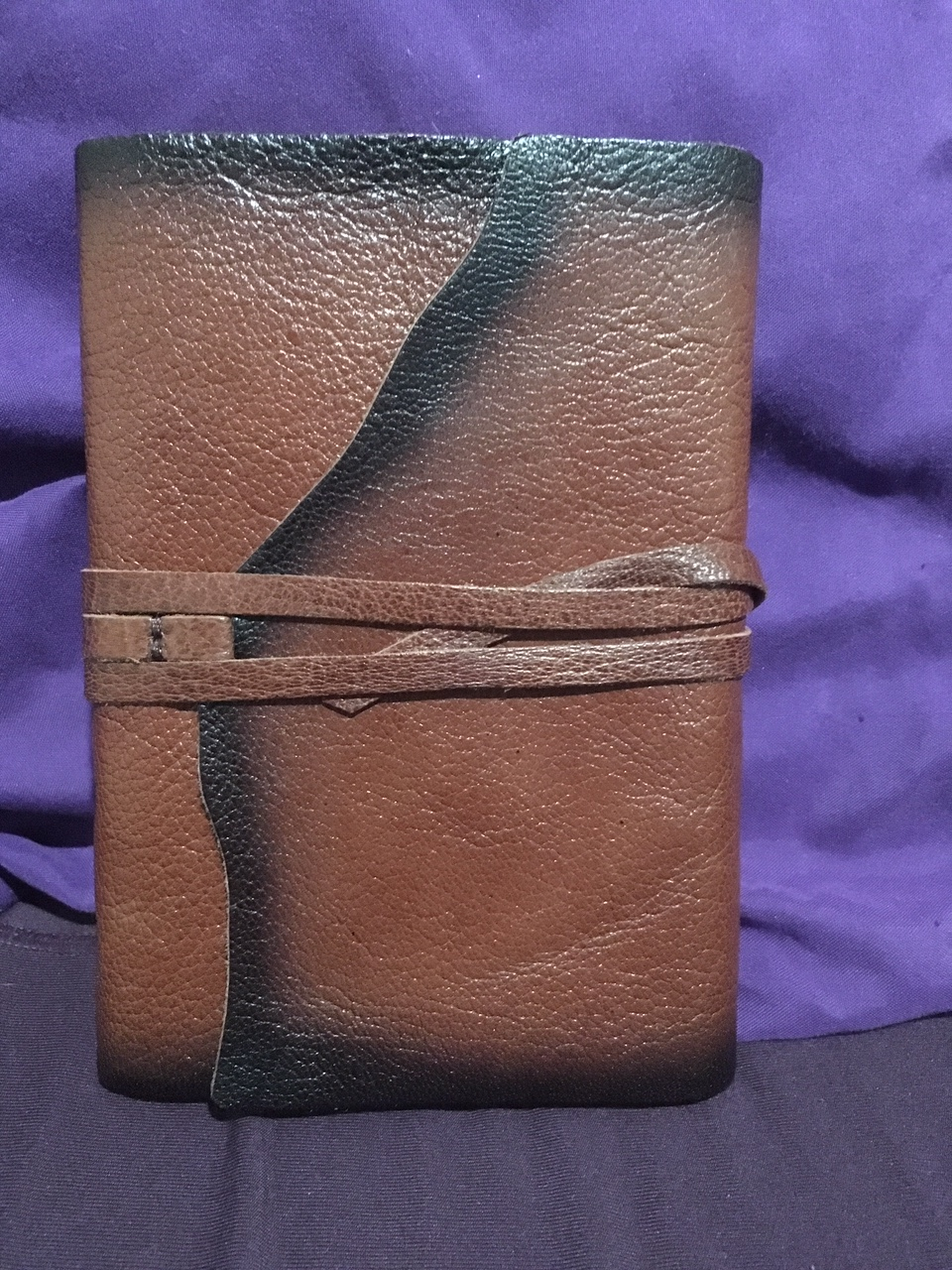 Photo of the ITB last it was seen.